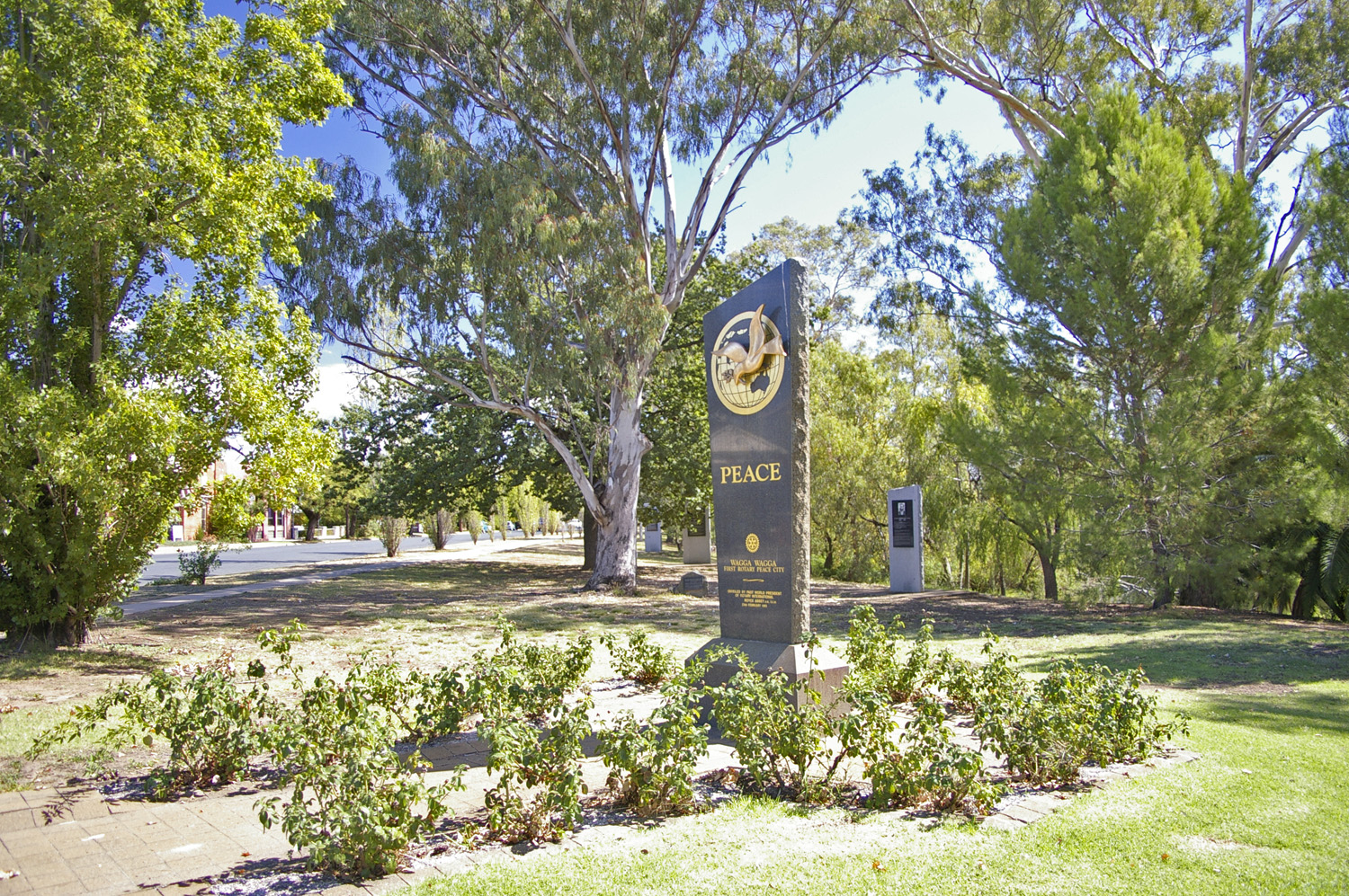 Rotary Peace Monument. Wagga Wagga was the first city in the World to become a Rotary Peace City in February, 1993[1][2][3].